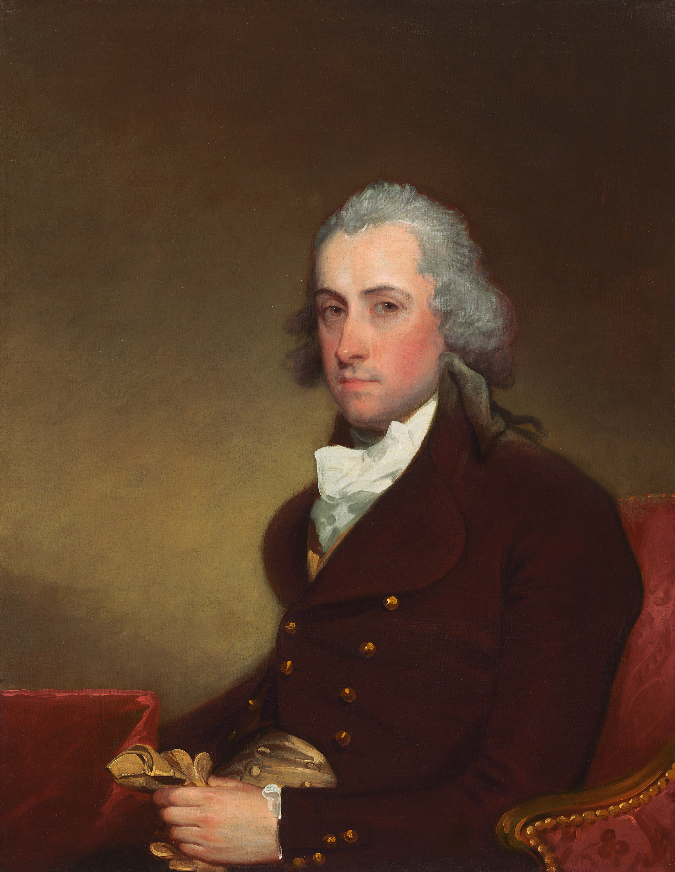 Painting of Stephen Van Rensselaer III (November 1, 1764 — January 26, 1839), founder of Rensselaer Polytechnic Institute, former Lieutenant Governor of New York, and member of the United States House of Representatives. He is documented as having been the tenth richest American in history with a net worth of $10 million (about $88 billion in 2007 dollars) at the time of his death.